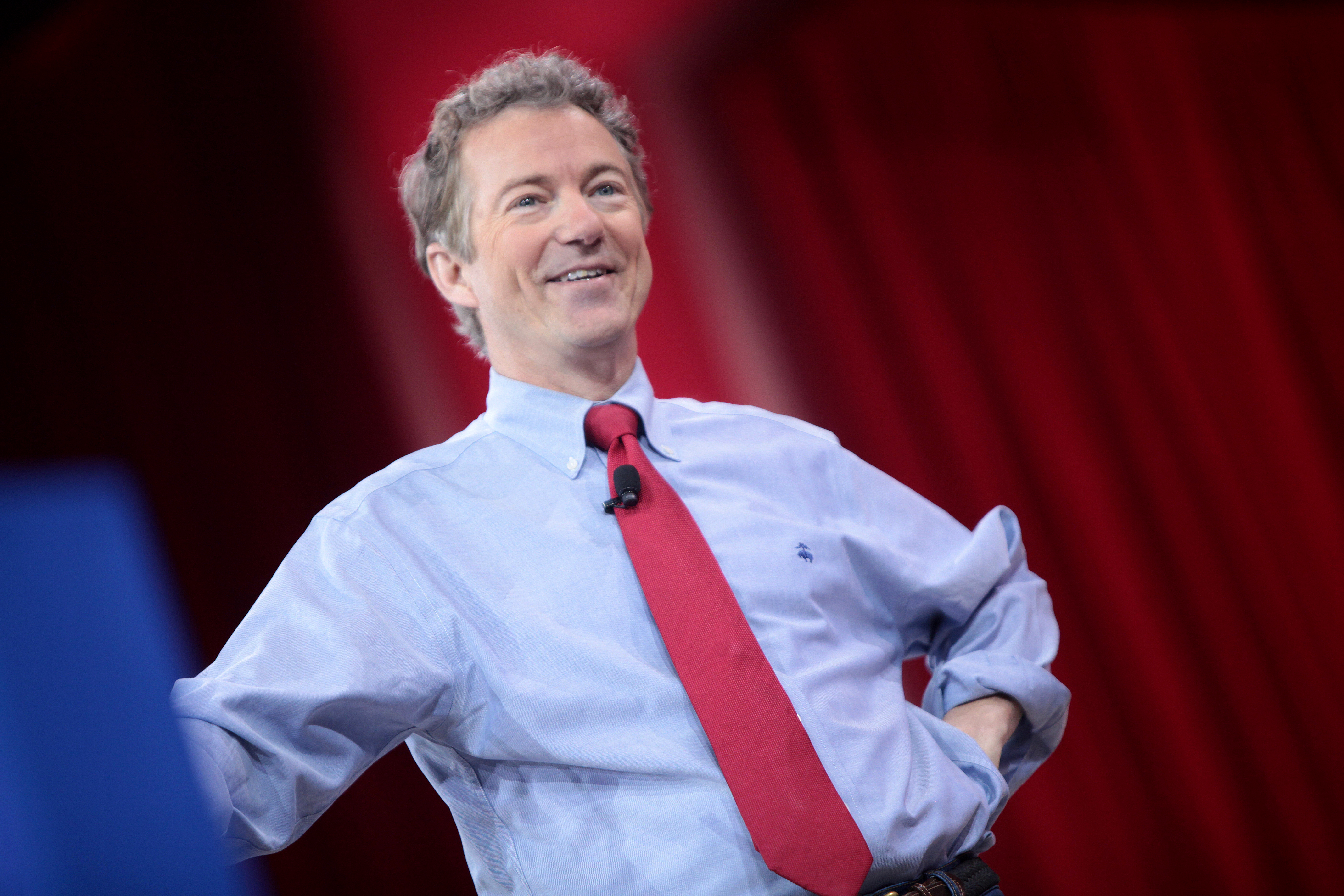 Rand Paul speaking at CPAC 2015 in Washington, DC.